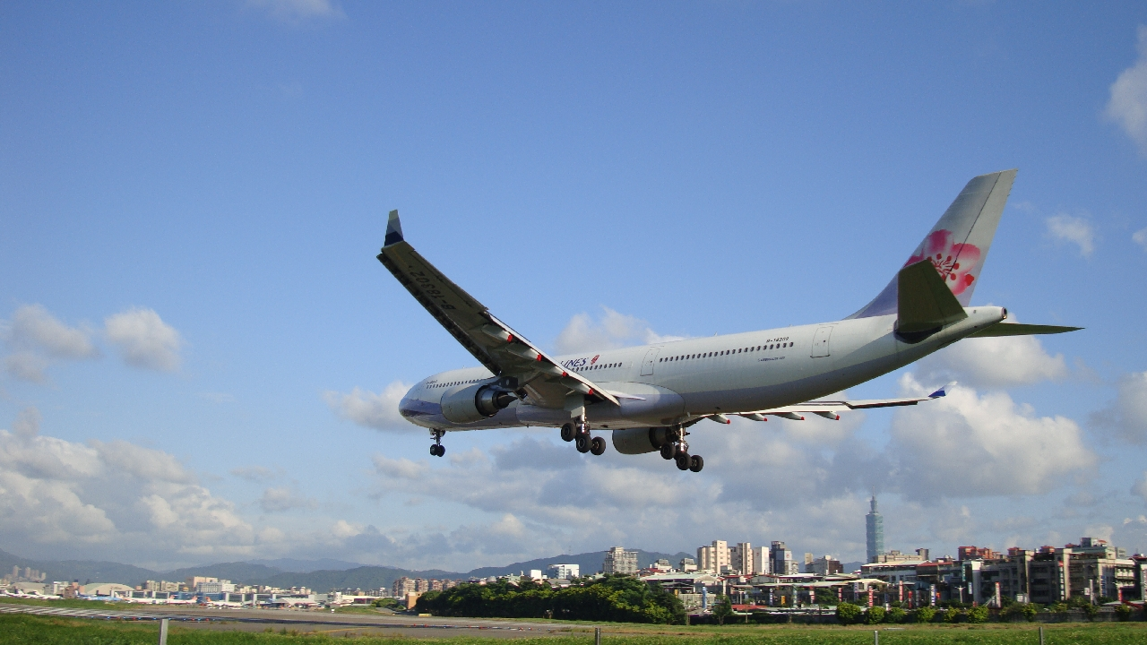 CAL AIRBUS A330-300 READY TO LAND IN RCSS